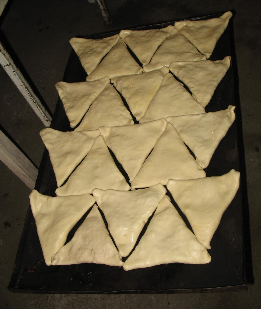 Samsa being prepared for baking in Karakol, Kyrgyzstan Кыргызча: Караколдогу жакында бышаар самса.